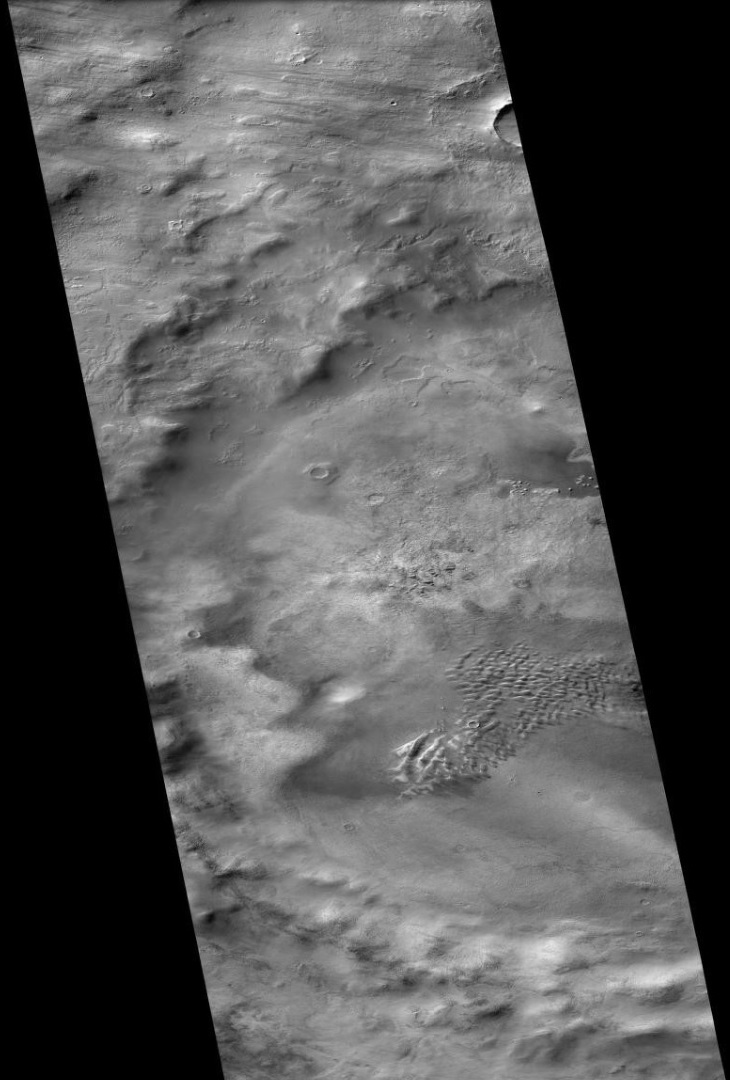 Haldane Crater, as seen by ctx